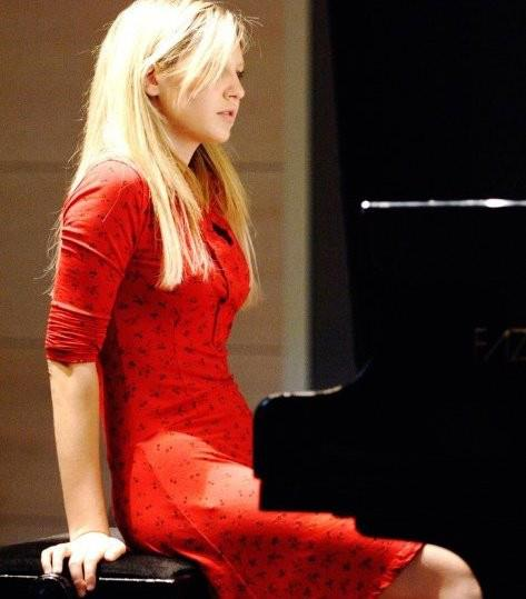 Italian pianist Vanessa Benelli Mosell in Kuerten